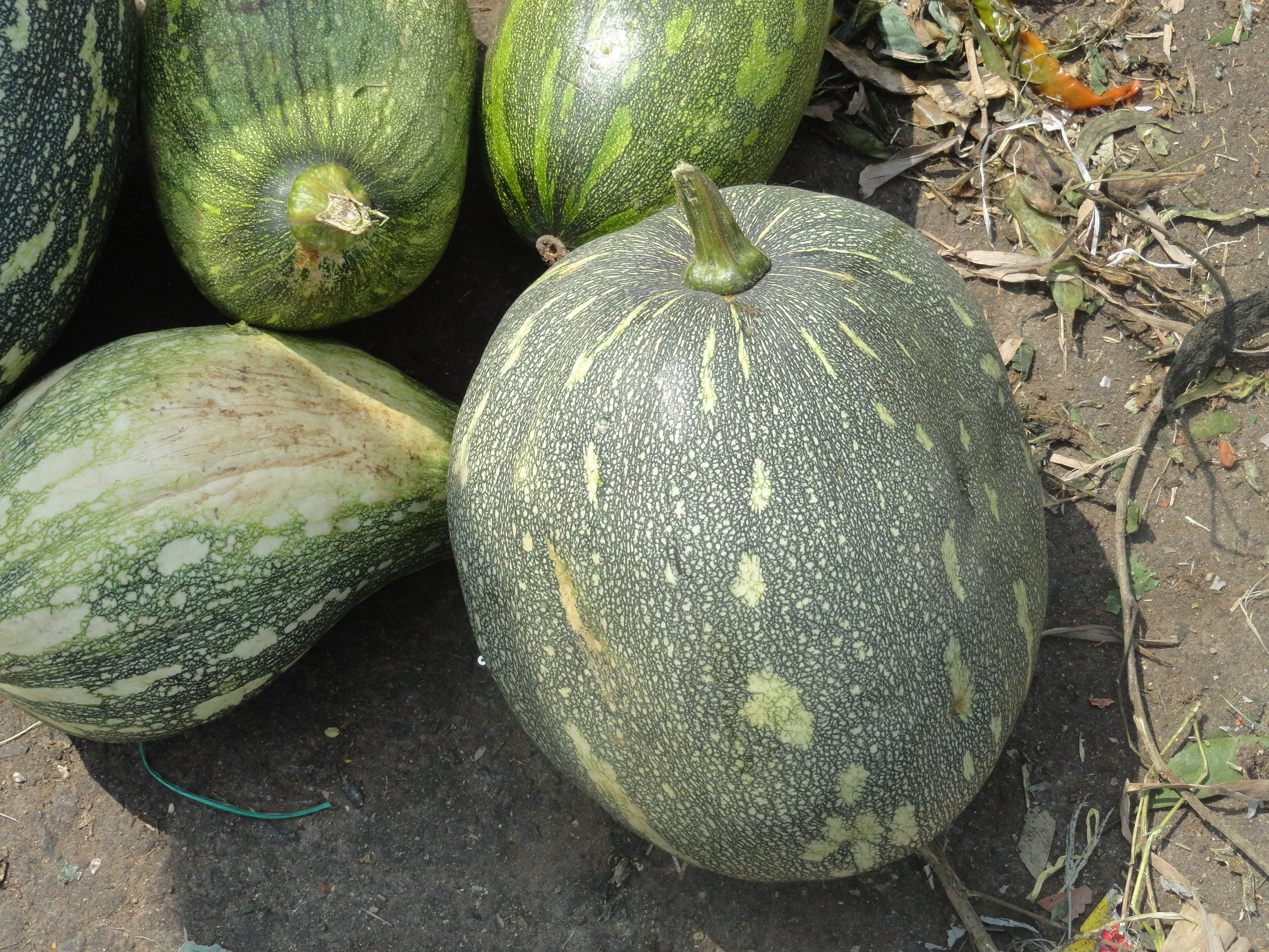 sweet pumpkin.